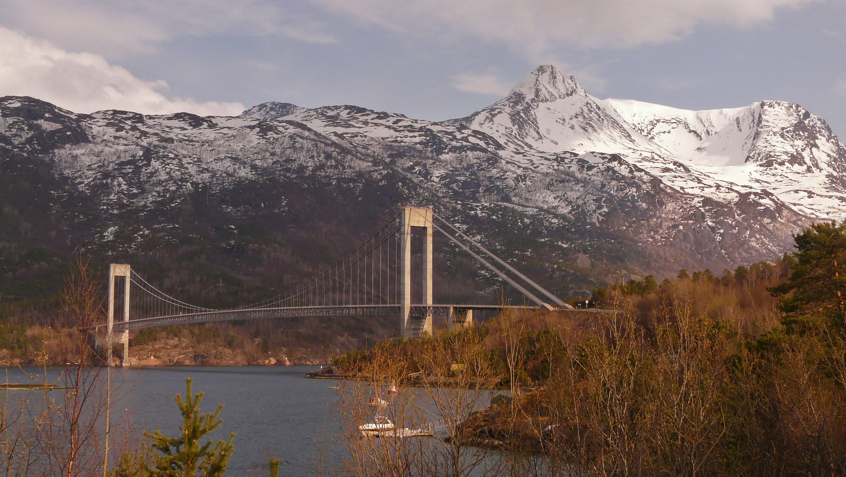 Skjombrua as seen from the northeastern coast of Skjomen fjord in 2009 May.